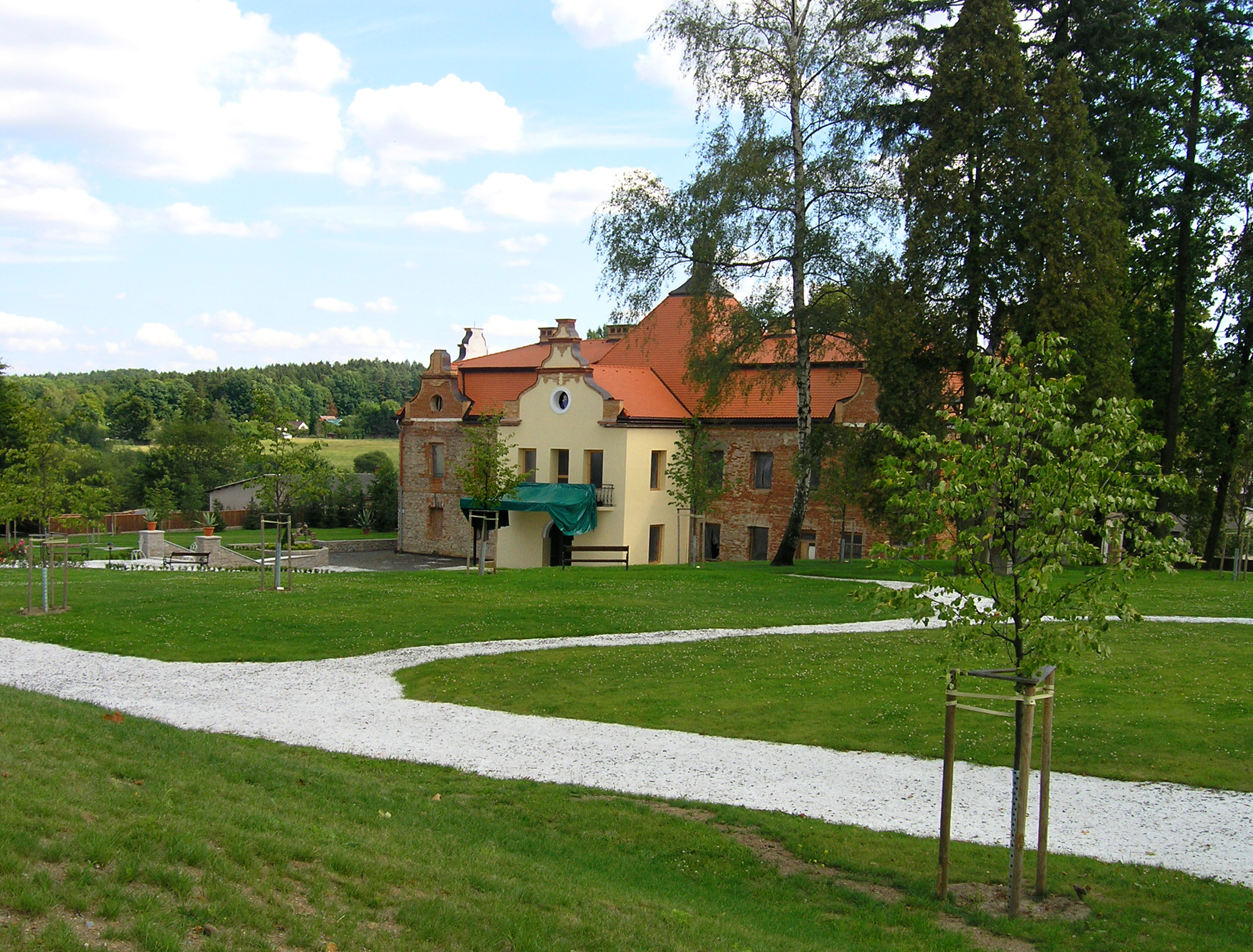 Berchtold Castle in Vidovice, part of Kunice vilage, Czech Republic